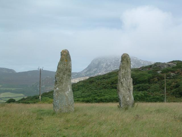 Penrhos Feilw Two standing stones standing to a height of 10 feet (3.1m), probably dating to the earlier Bronze Age. Looking North